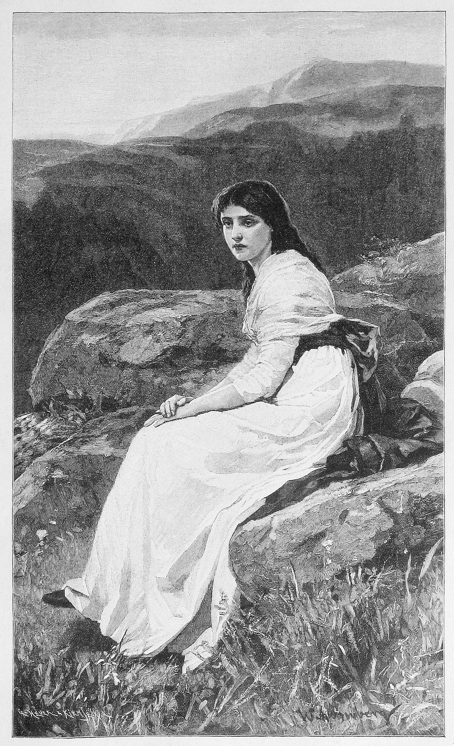 Image from page 281 of journal Die Gartenlaube, 1886.